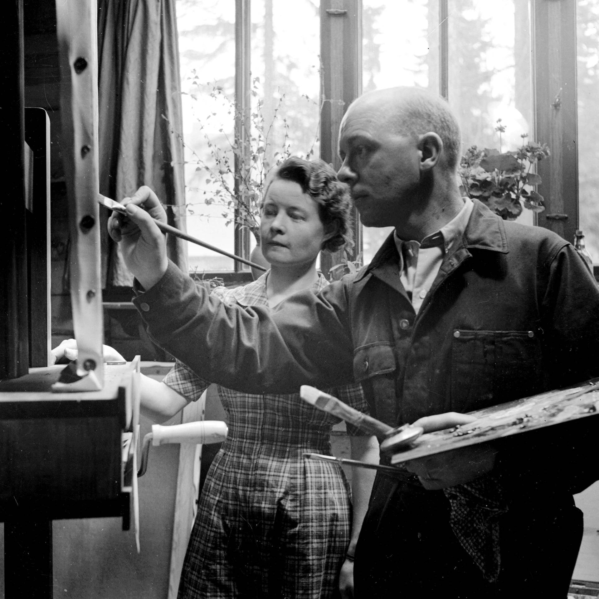 Photograph of the Danish painter Johannes Dührkop (1903–1985) and his wife, Finnish writer Sally Salminen-Dührkop (1906–1976).